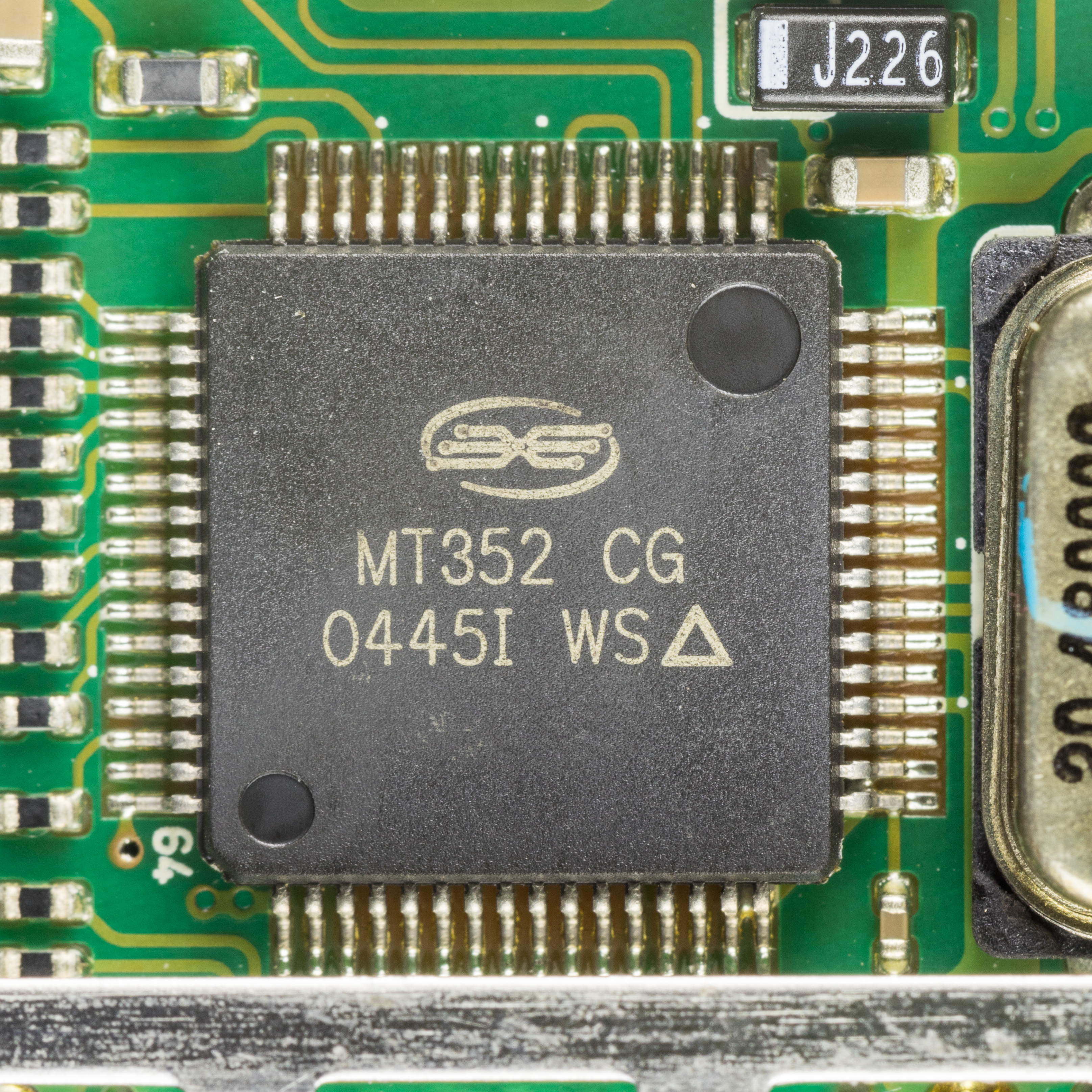 TerraTec Cinergy T² - controller - Zarlink MT352CG - COFDM Demodulator. Package: 64 Pin LQFP